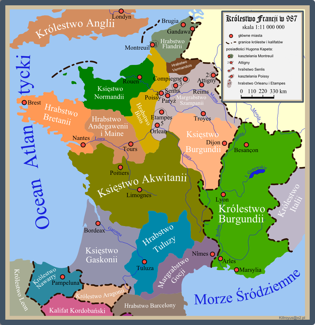 Kingdom of France in 987.